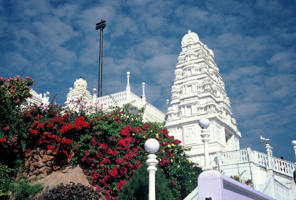 Birla Mandir in Hyderabad, India